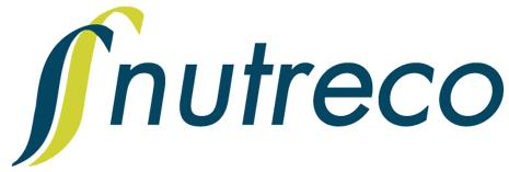 Nutreco logo